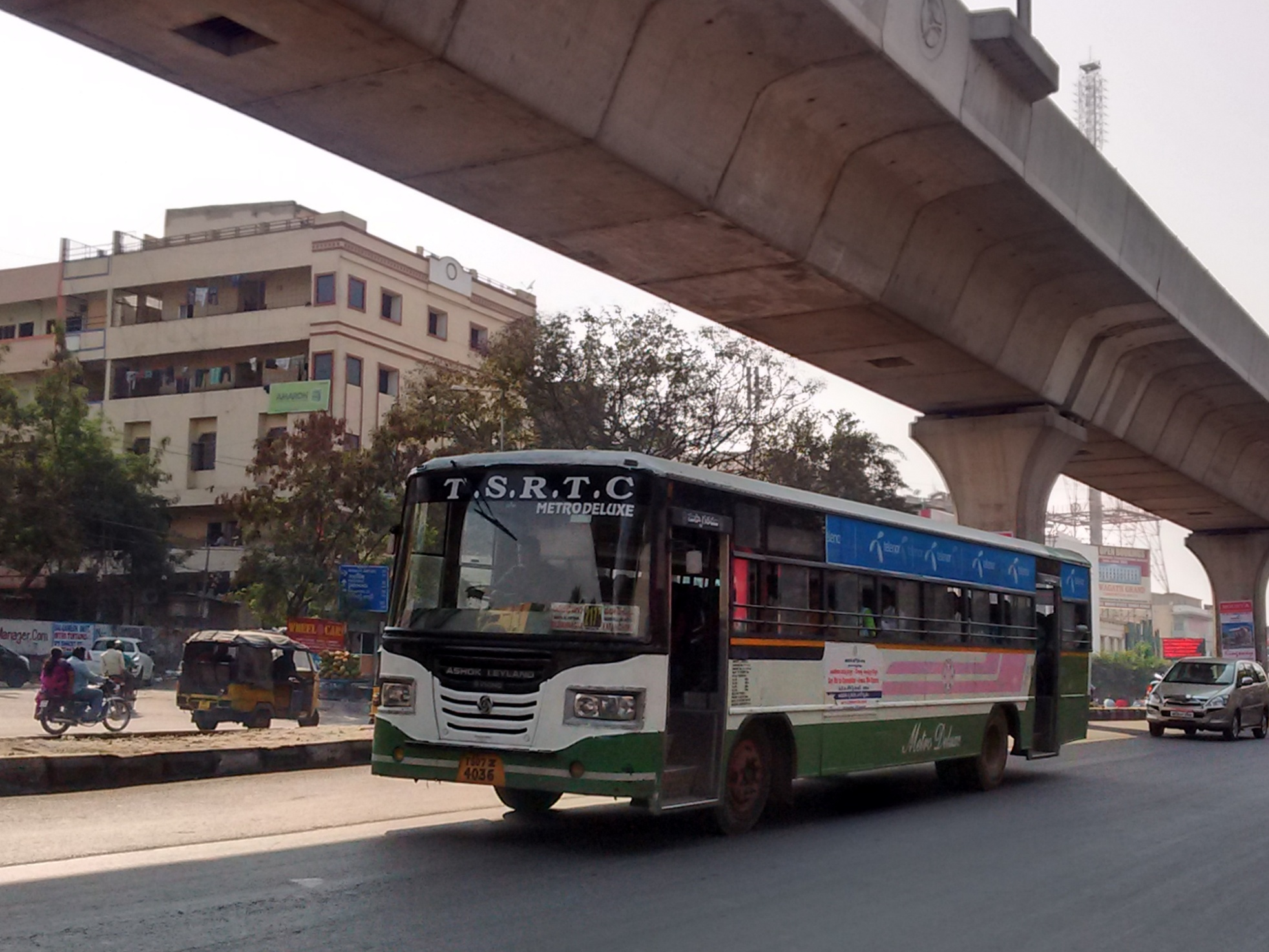 TSRTC's BS4 Metro Deluxe Bus Heading towards Dilsukhnagar